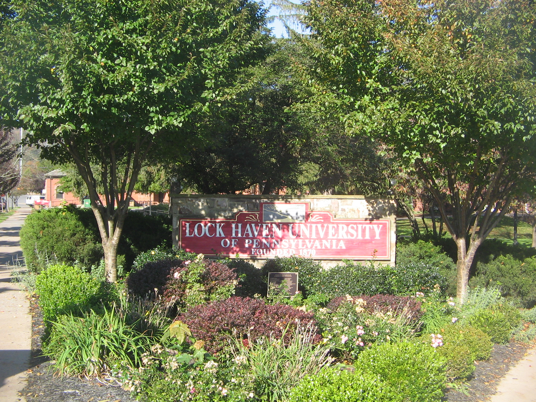 Sign at Lock Haven University in Lock Haven, Clinton County, Pennsylvania, USA